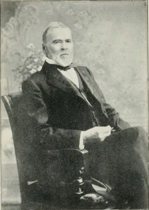 Illustration in History of Iowa From the Earliest Times to the Beginning of the Twentieth Century